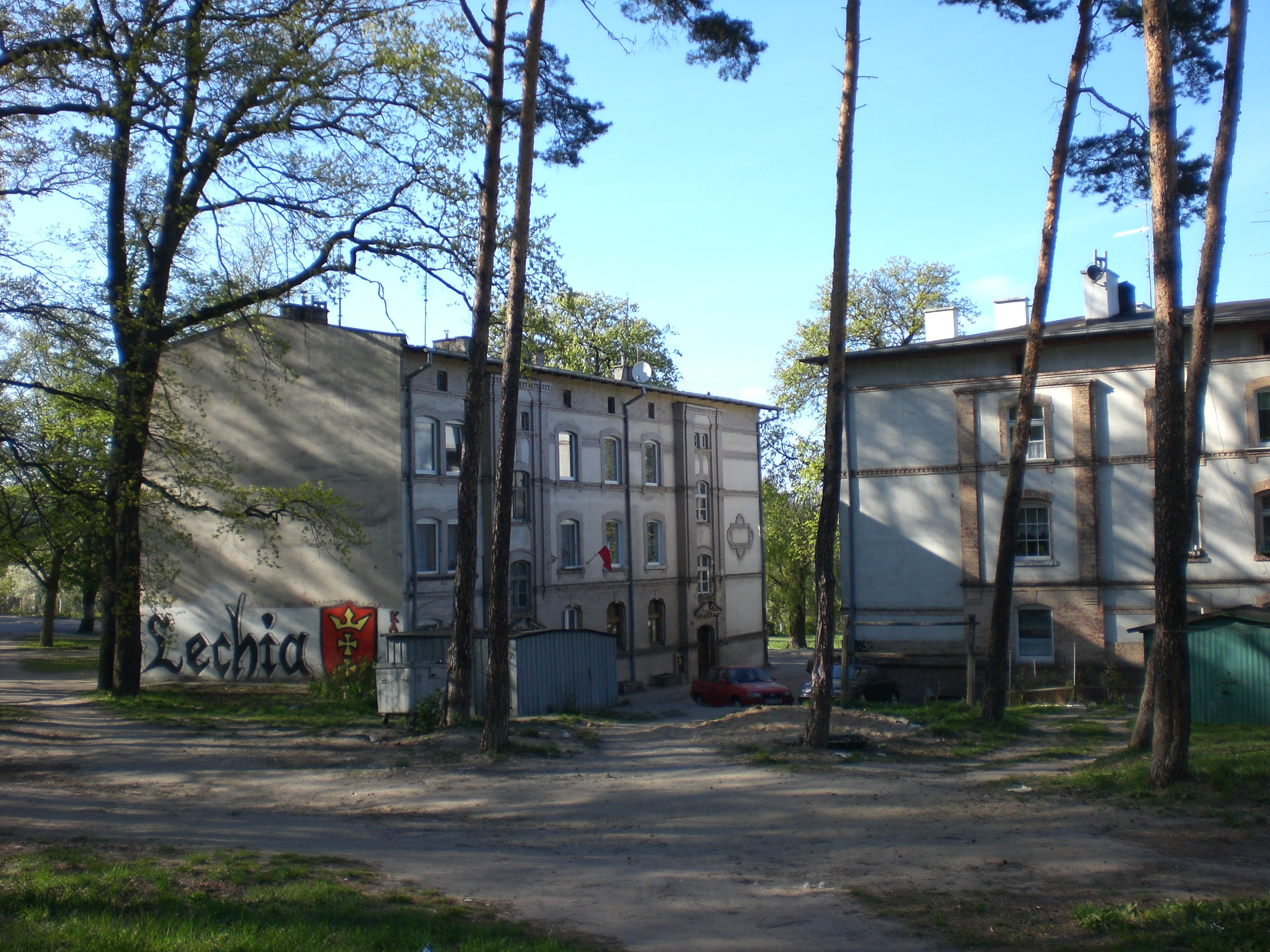 Gdańsk Aniołki - Traugutta Street.